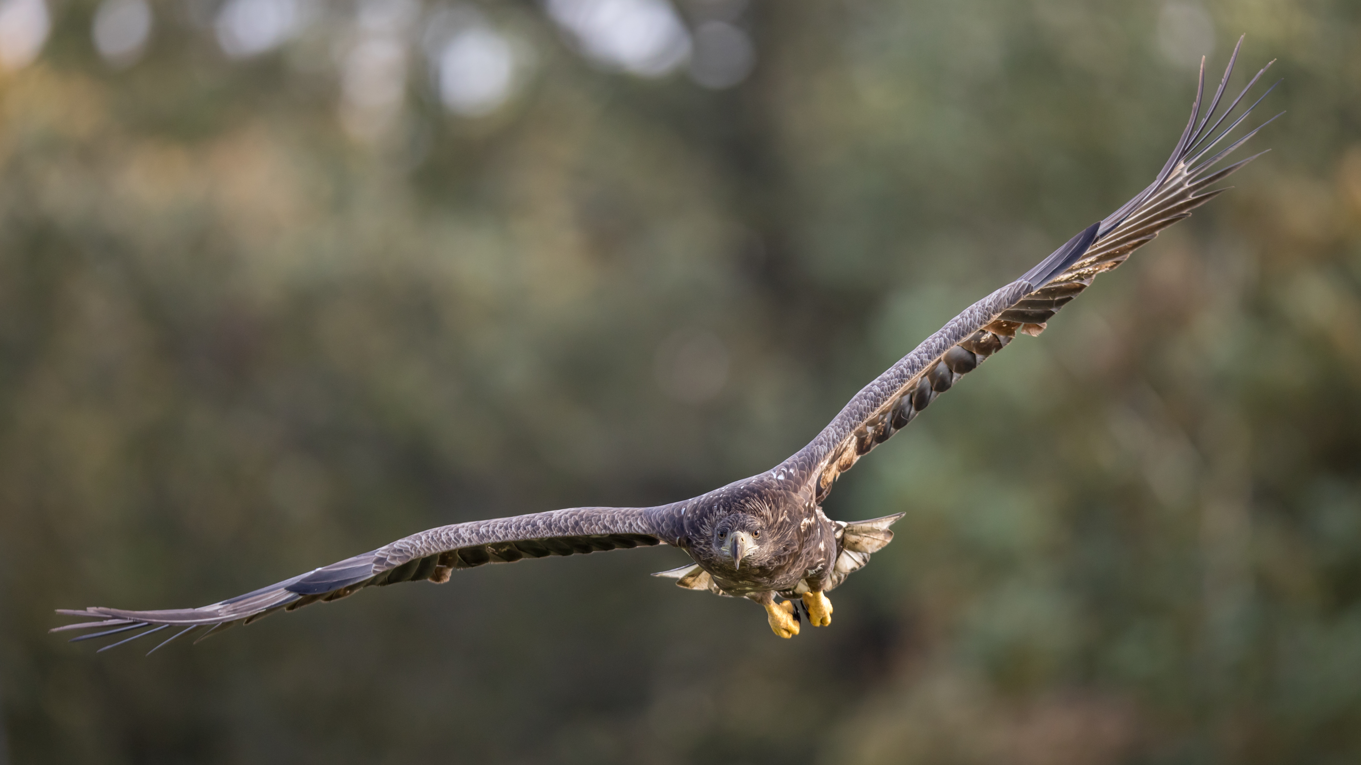 In the Gostynin-Wloclawek nature reserve several white-tailed eagles overwinter; this is a natural habitat for these gigantic birds. This juvenile eagle is flying low across a clearing.